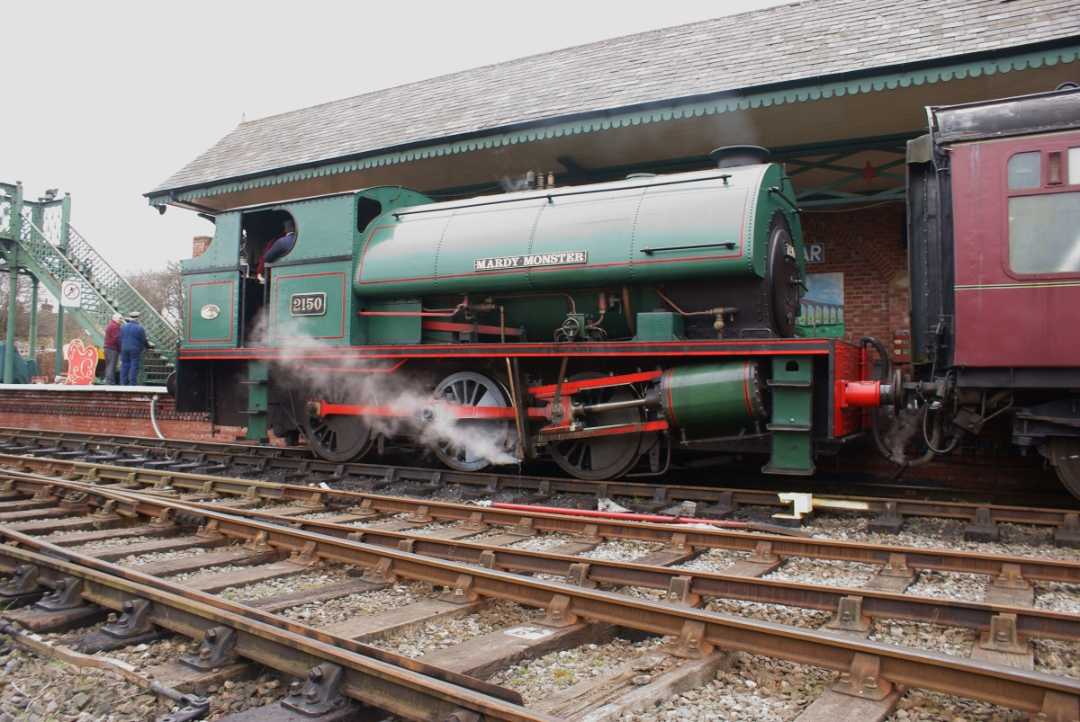 Peckett and Sons OQ Class 0-6-0ST No. 2150 "Mardy Monster". Running at the Elsecar Heritage Railway with an Easter Special